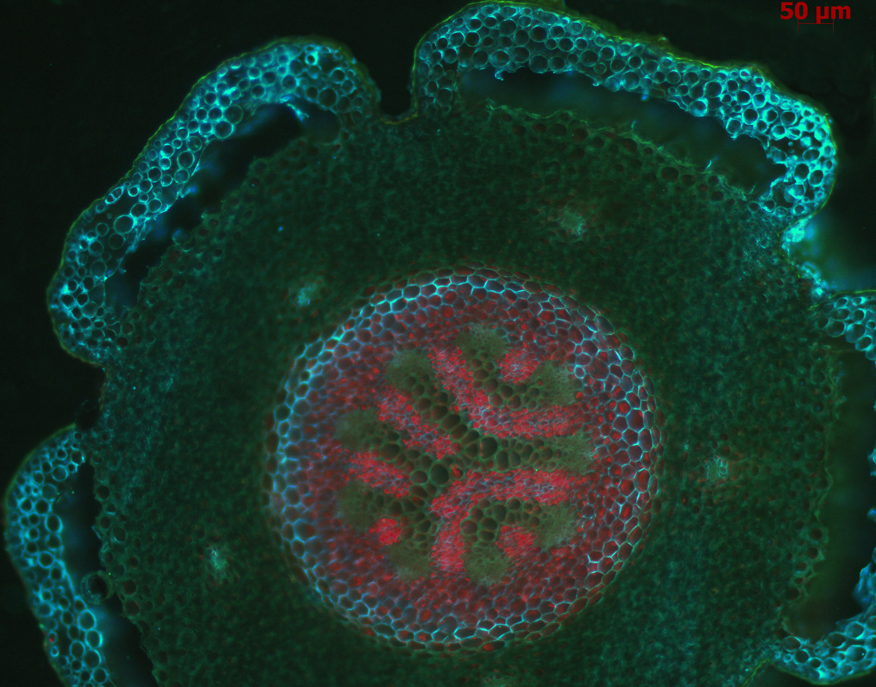 Cross-section of the Lycopodium annotinum upright stem, stained with Calcofluor White (confocal microscope). The leafy growths are on the periphery of the cross-section. In the centre is the conducting system (stele) having the form of plectostele (type of protostele).